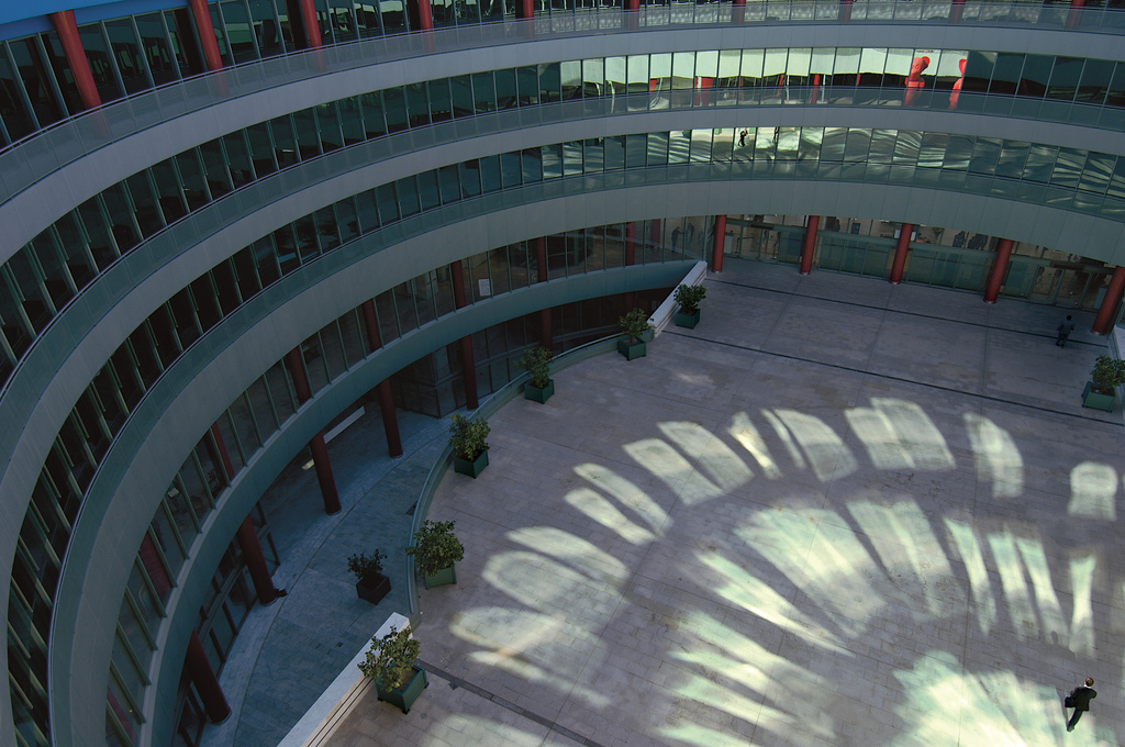 IFEMA This photograph can be used for publications, including this copyright statement: “©PromoMadrid, author Max Alexander”. Esta fotografía puede usarse en publicaciones, incluyendo la declaración “©PromoMadrid, autor Max Alexander”.